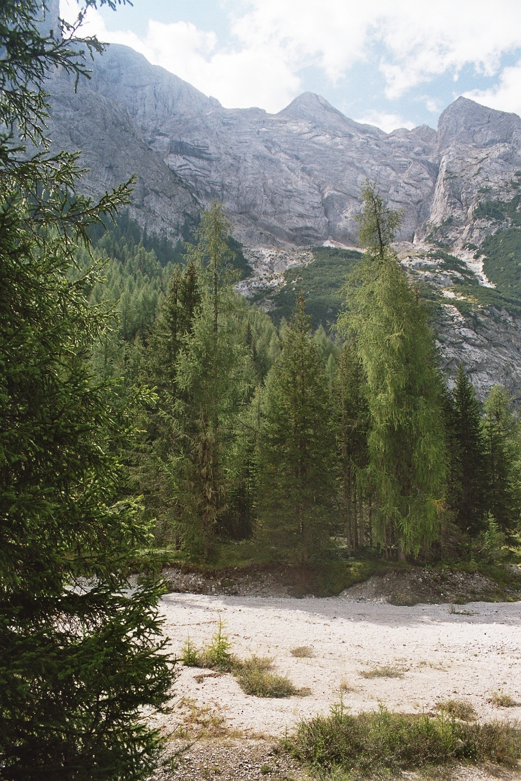 Pian Trevisan or Cian Trujan in Val di Fassa in South Tyrol, province of Belluno in Livinallongo del Col di Lana. According to legend a "Trusan" or "Trevisan" army of invasion was slain on this plain or field by the Ladinian inhabitants of the valley of Fassa .